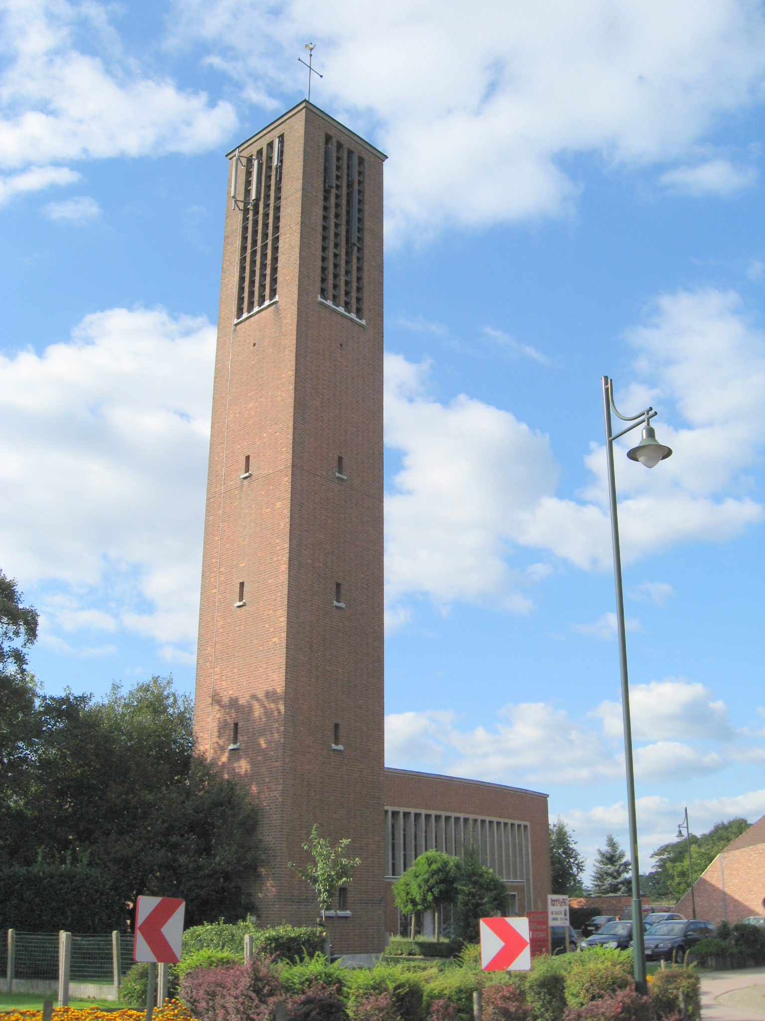 Church of Saint Joseph in Voorheide, Arendonk, Antwerp, Belgium